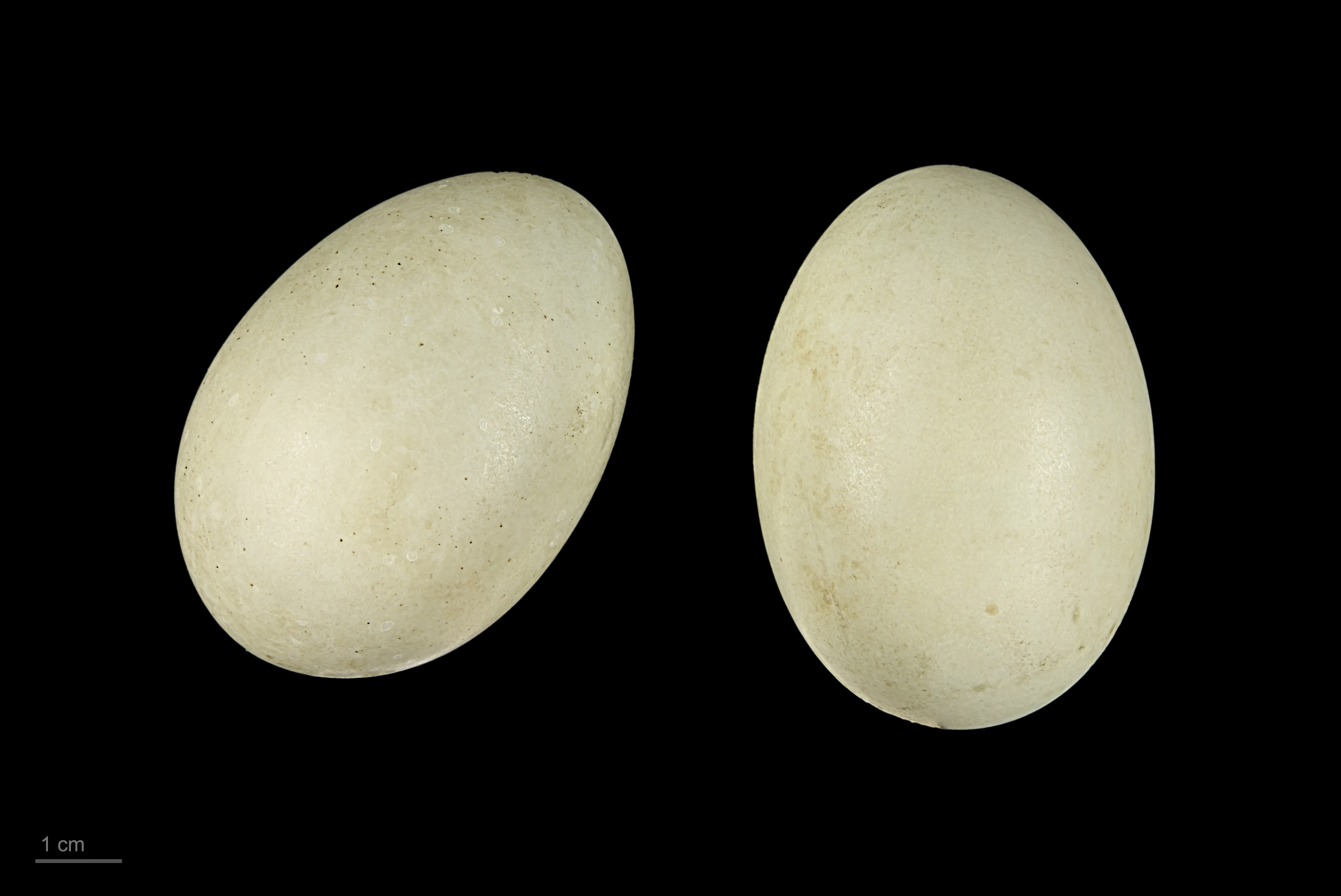 Eggs of common goldeneye Two specimens of the same spawn ; collection of Jacques Perrin de Brichambaut.